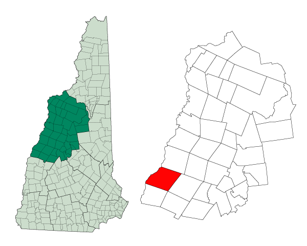 Map of a municipality in Belknap County, New Hampshire